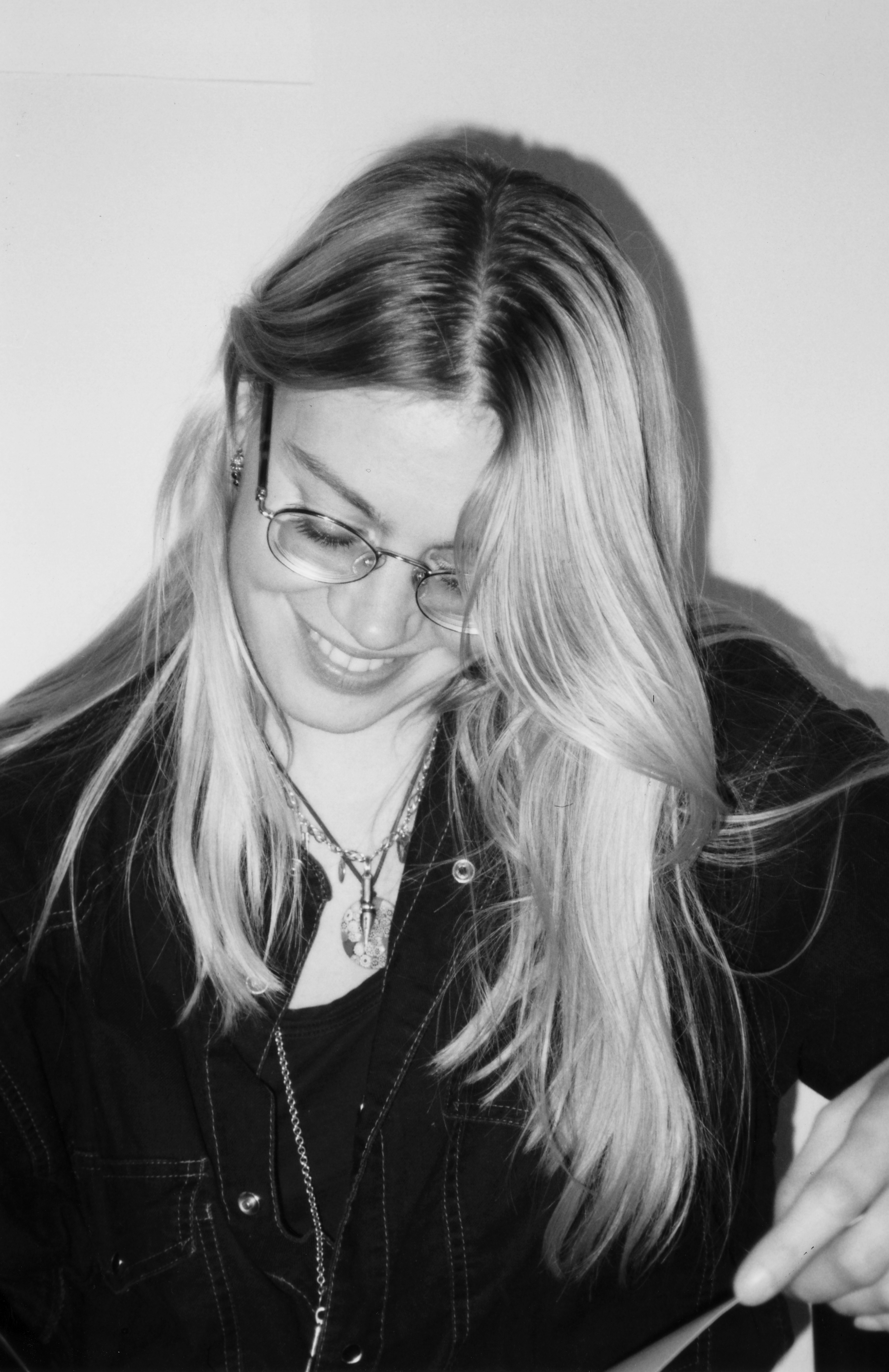 Kati Kovács, Finnish/Hungarian/Italian cartoonist. Photo: the Göteborg Book Fair, October 1995.